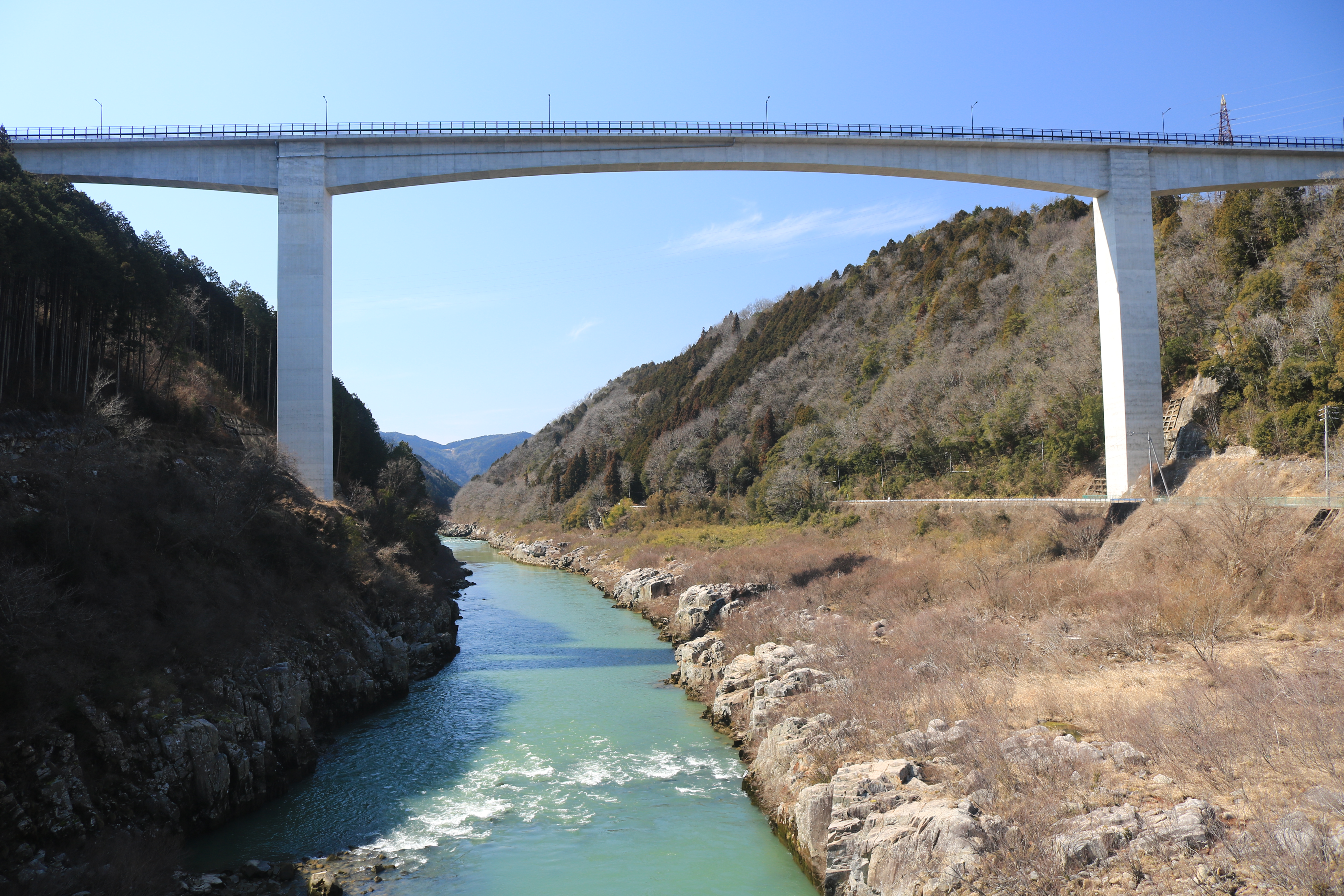 Shinonome Bridge (Shinonome-ohashi) of Gifu Prefectural Road Route 72 over Kiso River in Ena, Gifu prefecture, Japan.